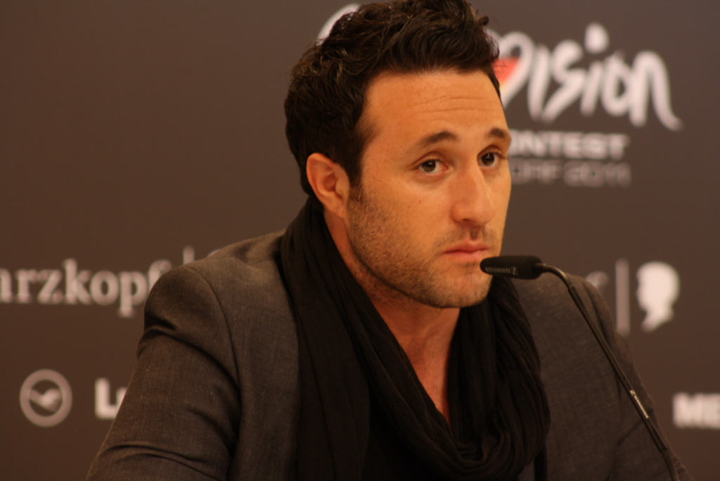 English singer-songwriter and actor Antony Costa